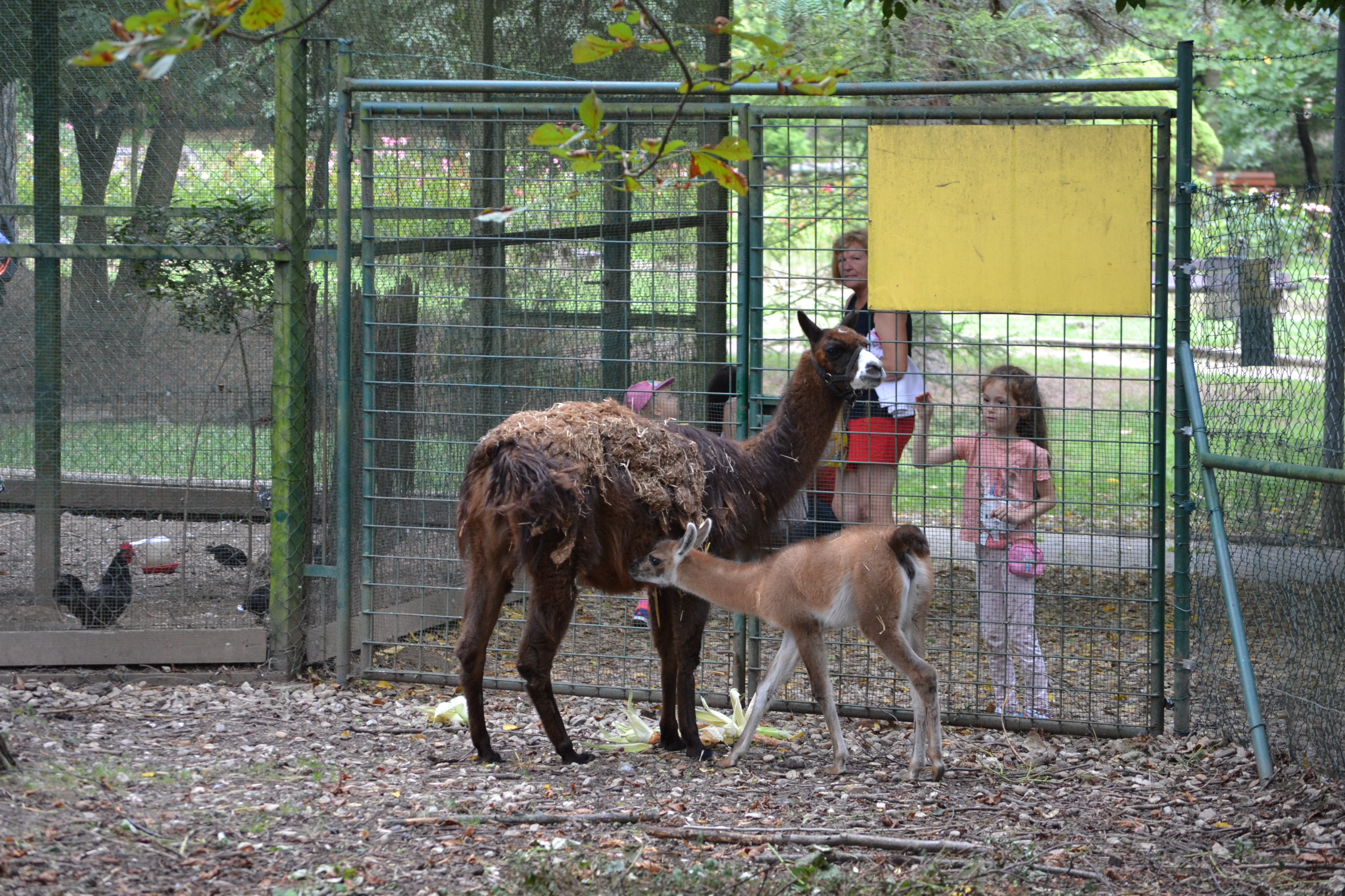 Baby Lama with mother in the City Park in Lučenec